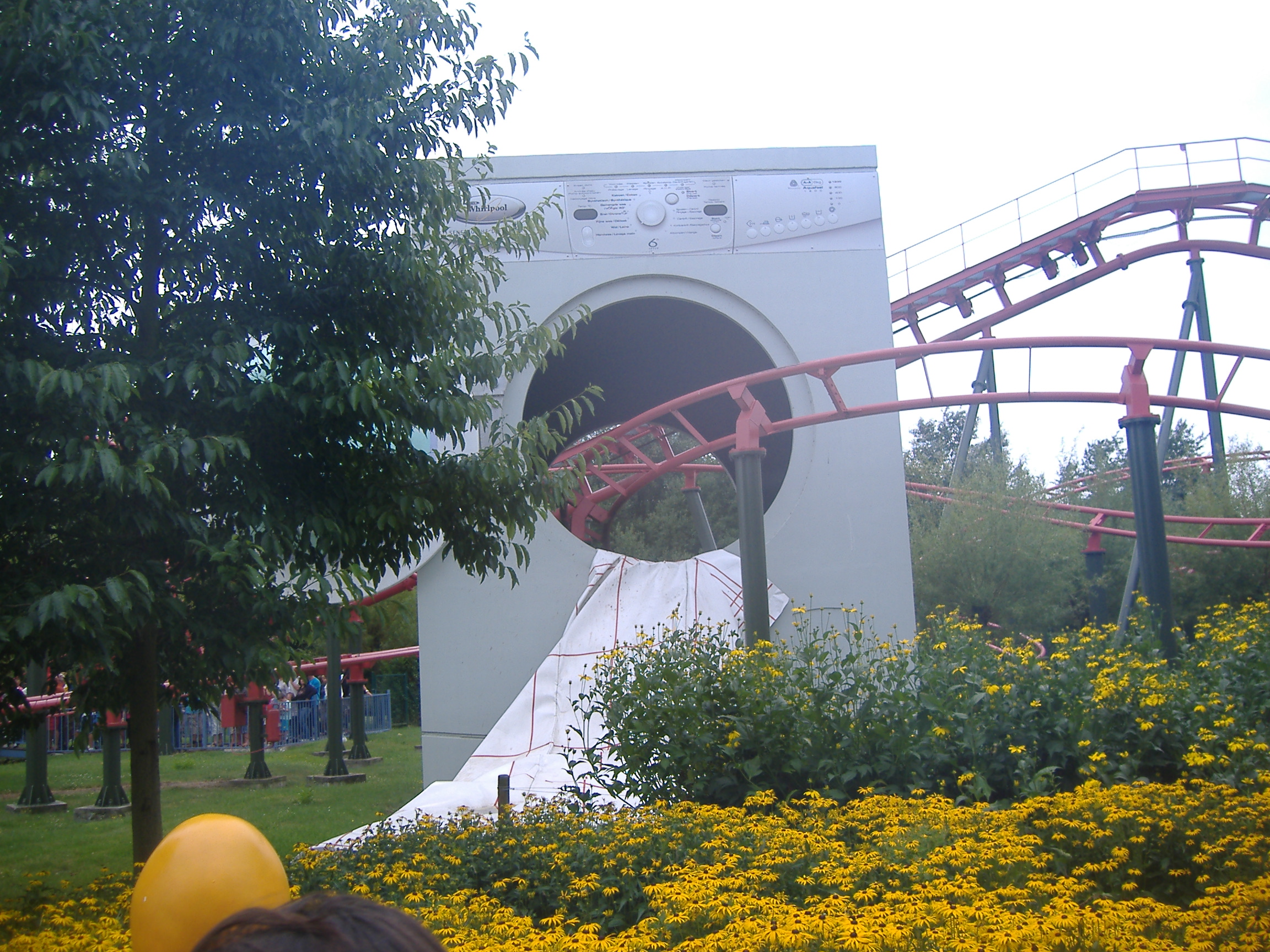 Plopsaland